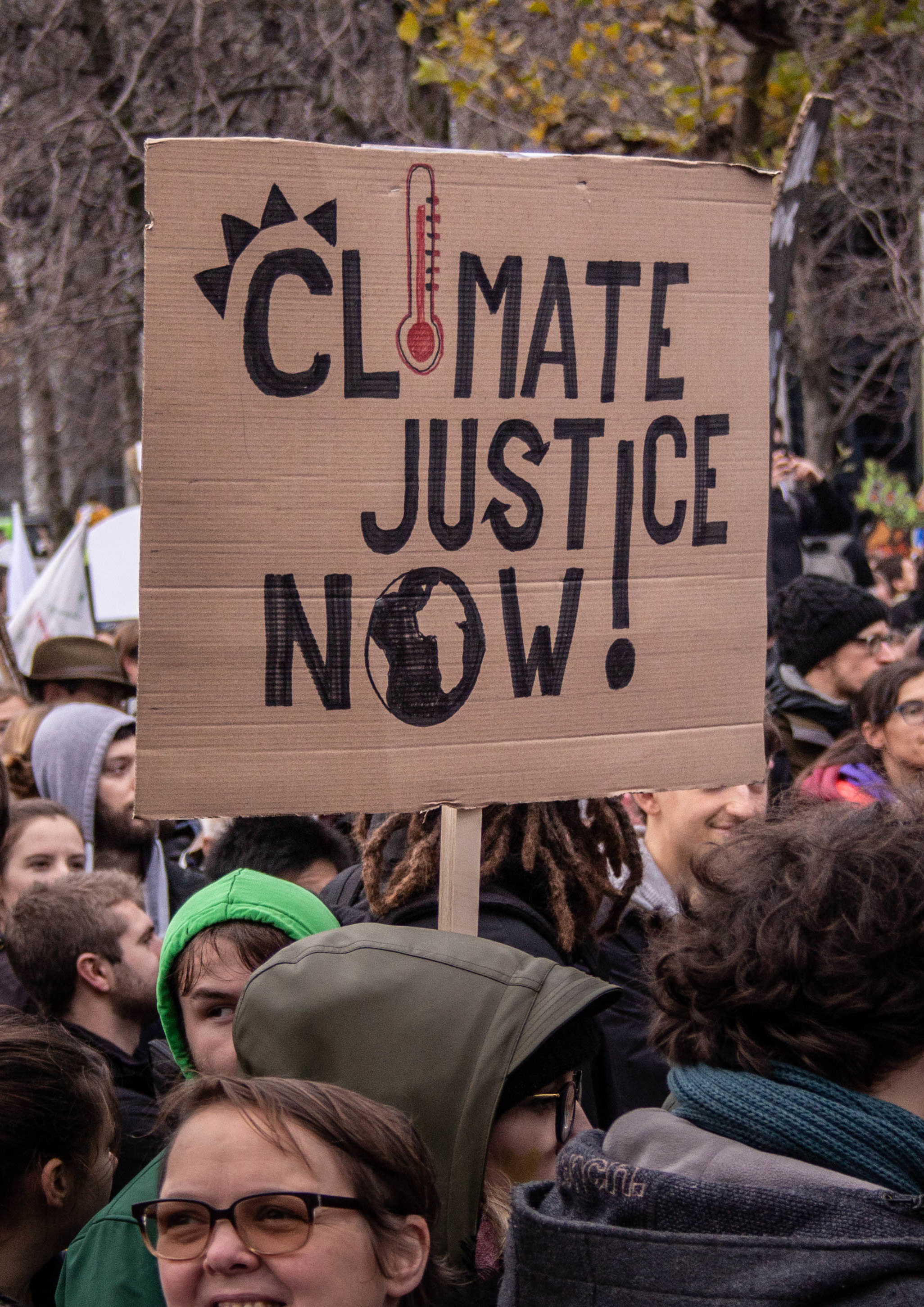 Placard "Climate Justice Now!" at the Climate March in Brussels, on 2 December 2018.